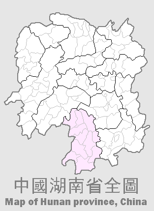 Maps of Hunana Province of China